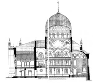 Synagoue in Czernowitz, built in 1877 par architect Zachariewicz. Sectional elevation- View to the North.